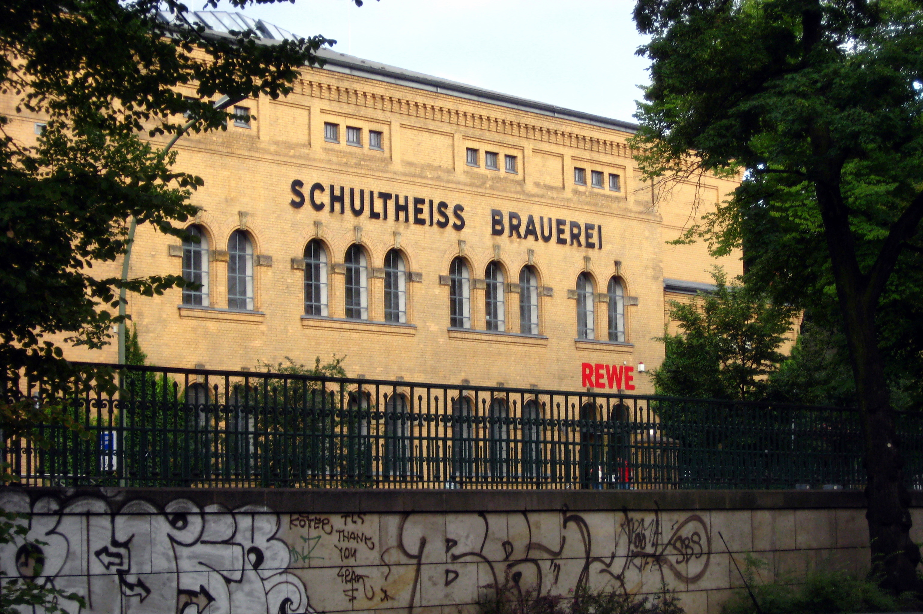 Berlin, Germany